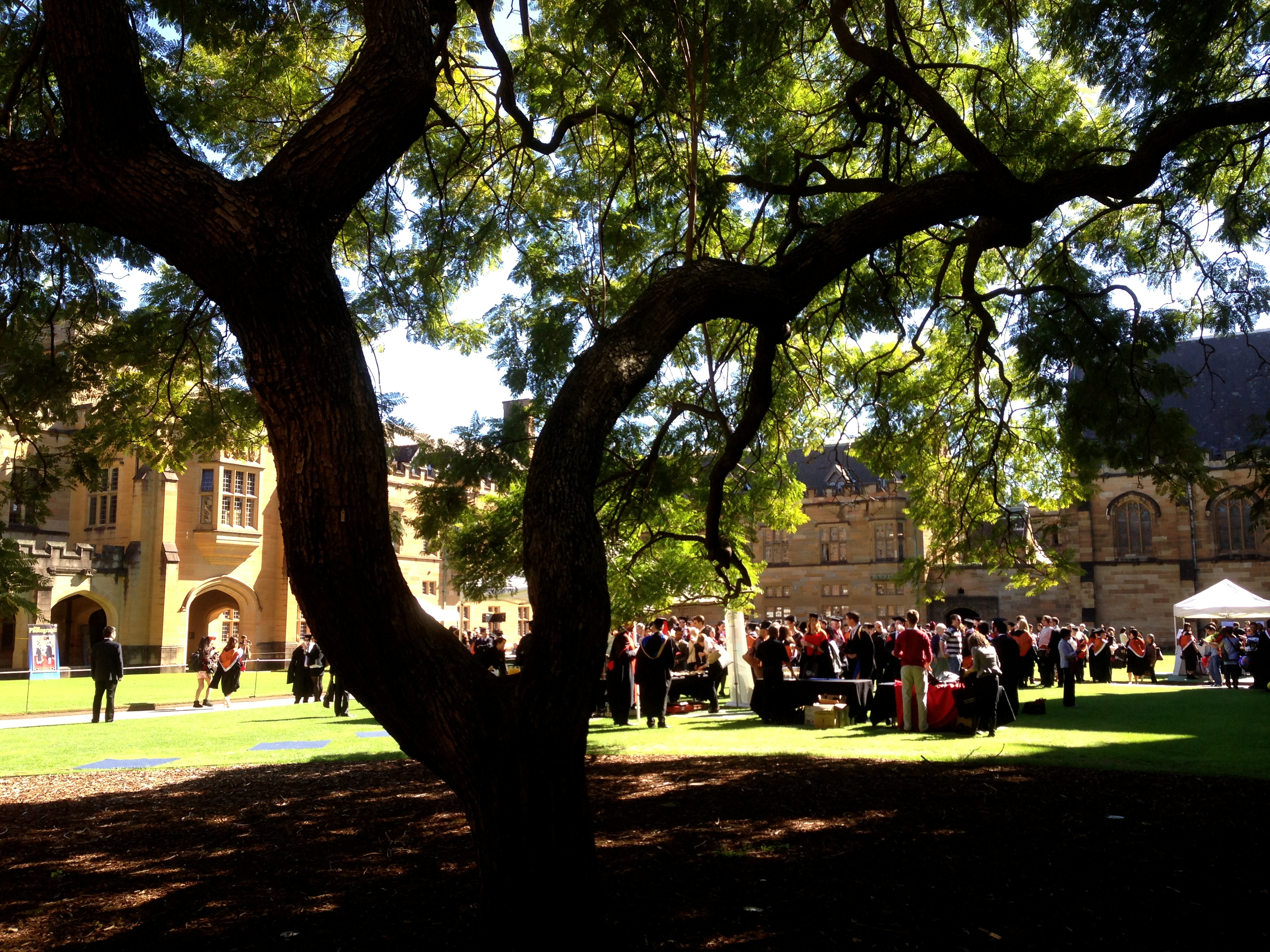 Inside the Quadrangle Cloisters, showing the Jacaranda tree